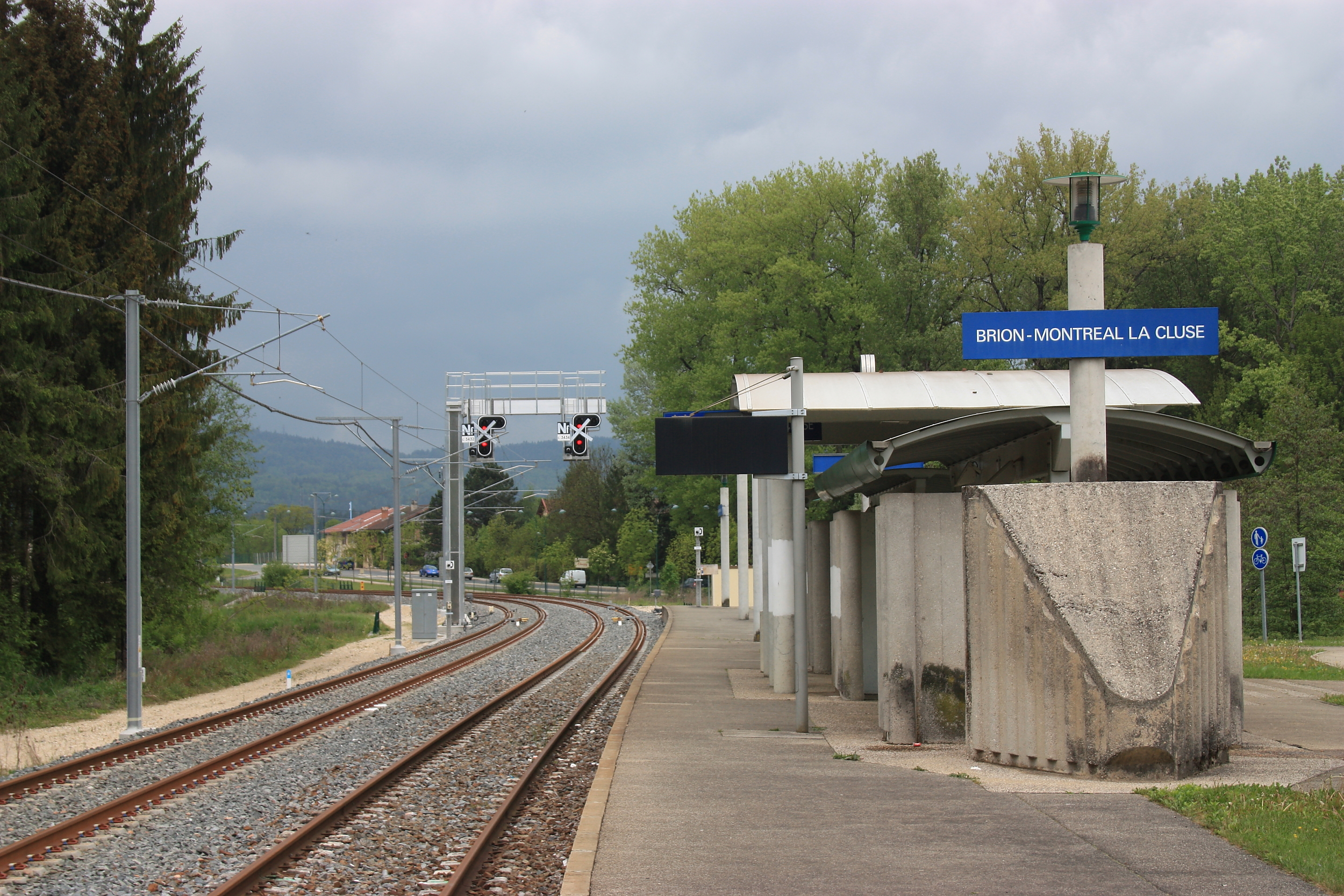 Railroad station of Brion-Montréal-la Cluse in 2010